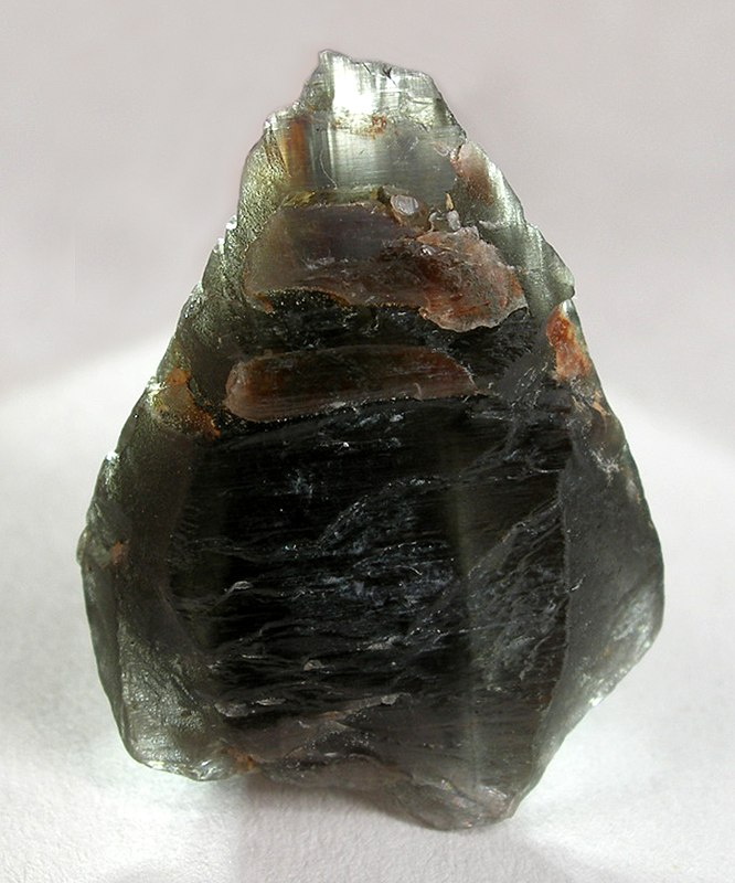 Sillimanite Locality: Orissa, India (Locality at ) Size: thumbnail, 2.7 x 2.1 x 0.9 cm Sillimanite (huge gem xl) Charlie was very impressed with this rare gem crystal of sillimanite, which he told me was the best he had seen, for combination of size and form. I cannot argue, as I have never seen but rounded pebbles of this material, from Mogok and not from India. The crystal is a little bit like a floppy wizards hat in form, but it is translucent and 3-dimensional, and actually displays quite well. I am inclined to fully trust Charlie about its significance in the absence of anything to compare it to out there.